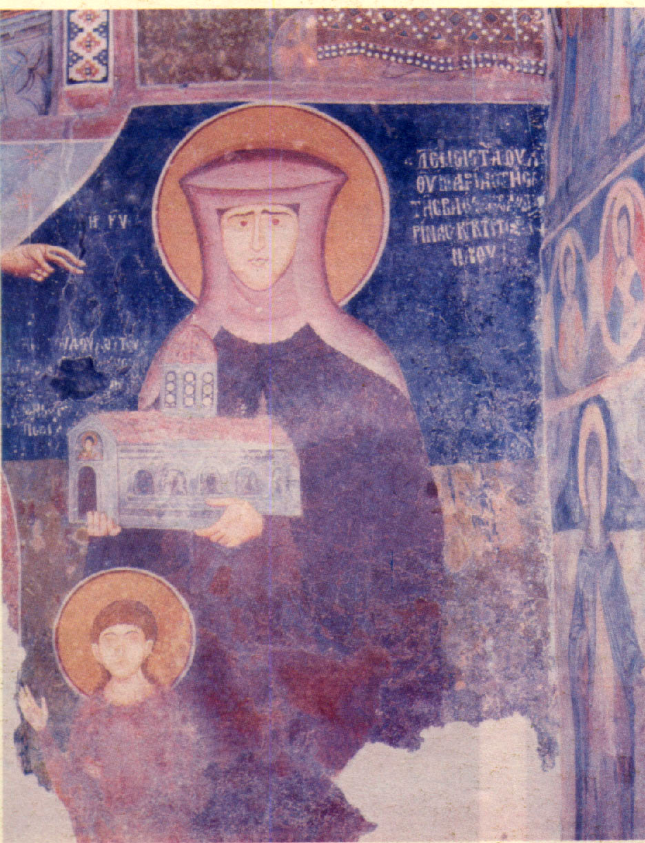 Marina Smilets of Bulgaria and a grandson of her - fresco in the church of Kavadarci, Republic of Macedonia.